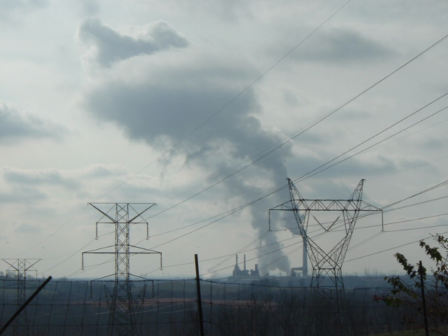 Picture of the E W Brown Power Plant. Taken from KY 29 south of Wilmore; Kentucky